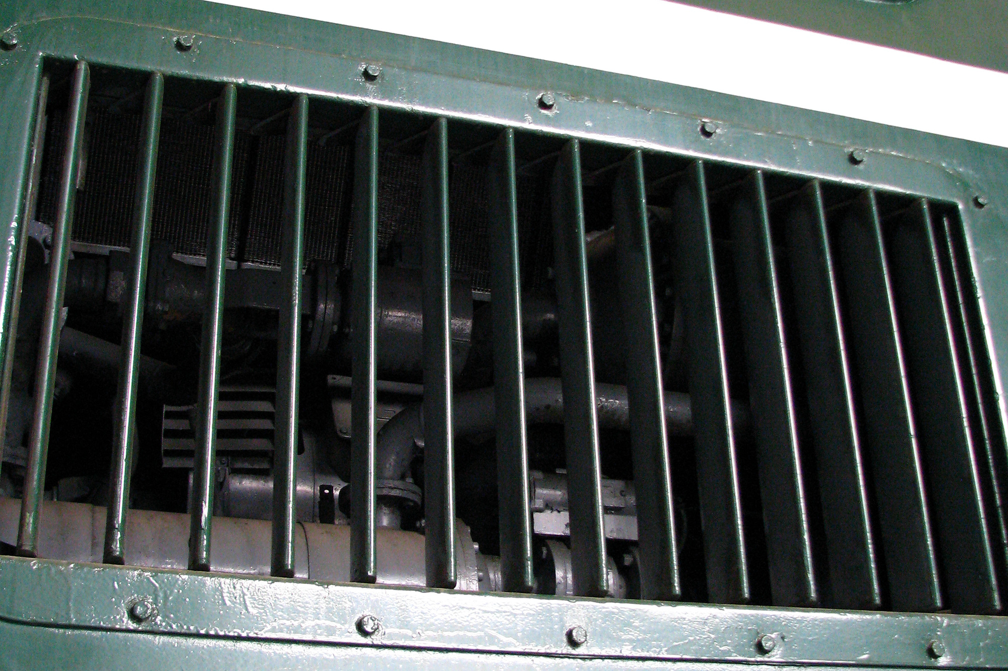 A snooping of the transmission-cooling room of China Railways NY5 0003 diesel-hydraulic locomotive through a ventilation window.